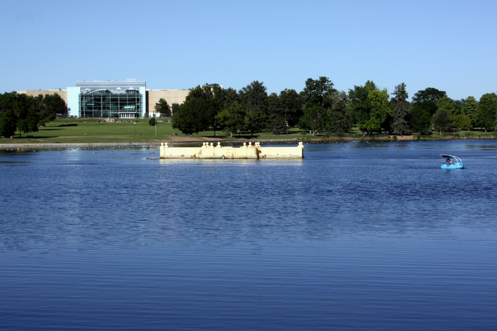 City Park, Denver, Colorado, USA, Ferril Lake and Museum of Nature and Science